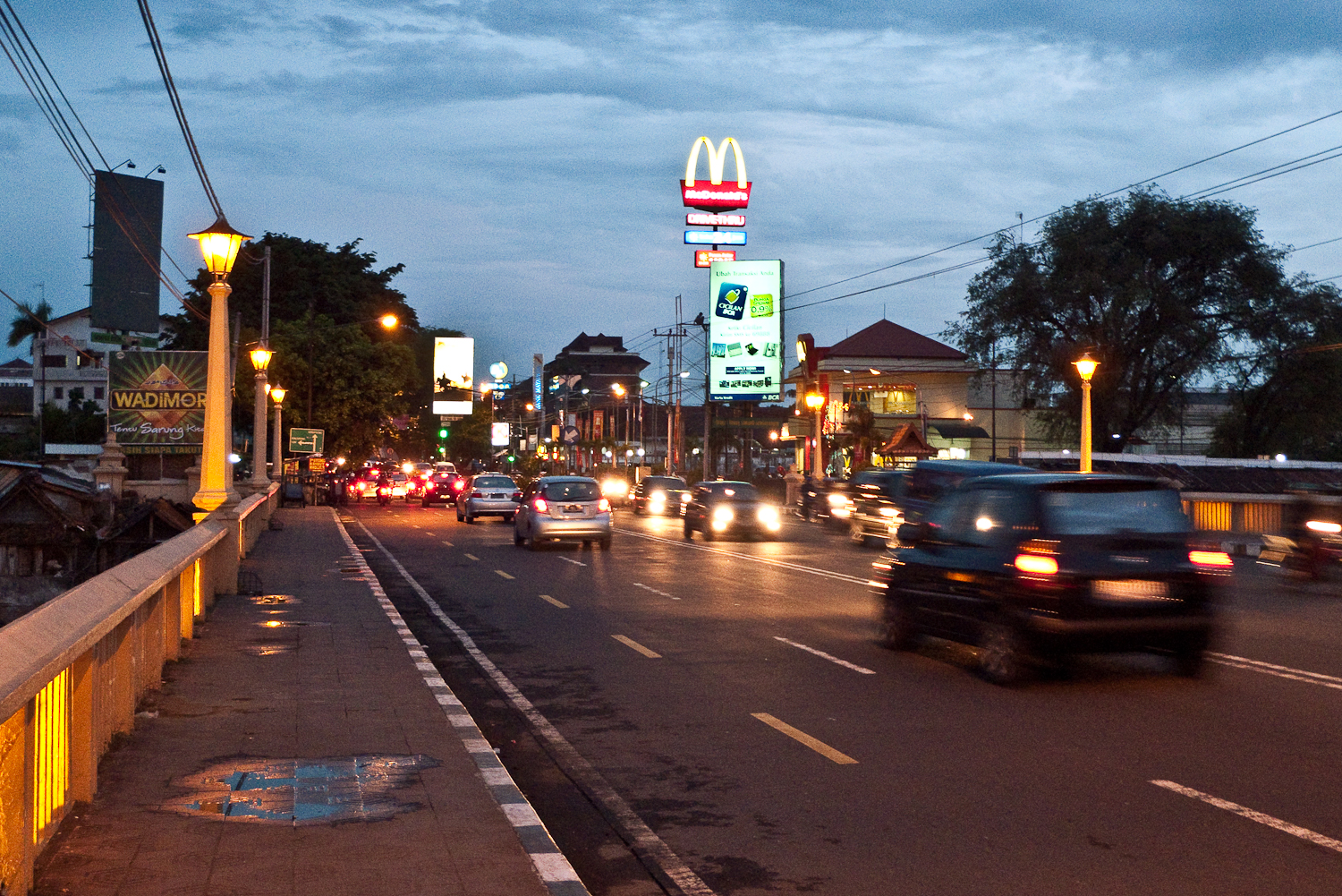 A view of the city of Yogyakarta in the afternoon